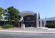 Sabancı Cultural Center Main Entrance